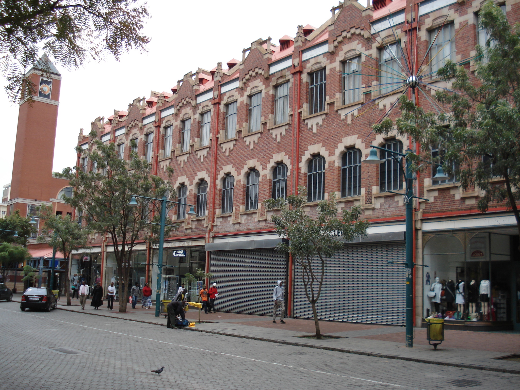 This media shows a South African Protected Site with SAHRA file reference 9/2/258/0019.